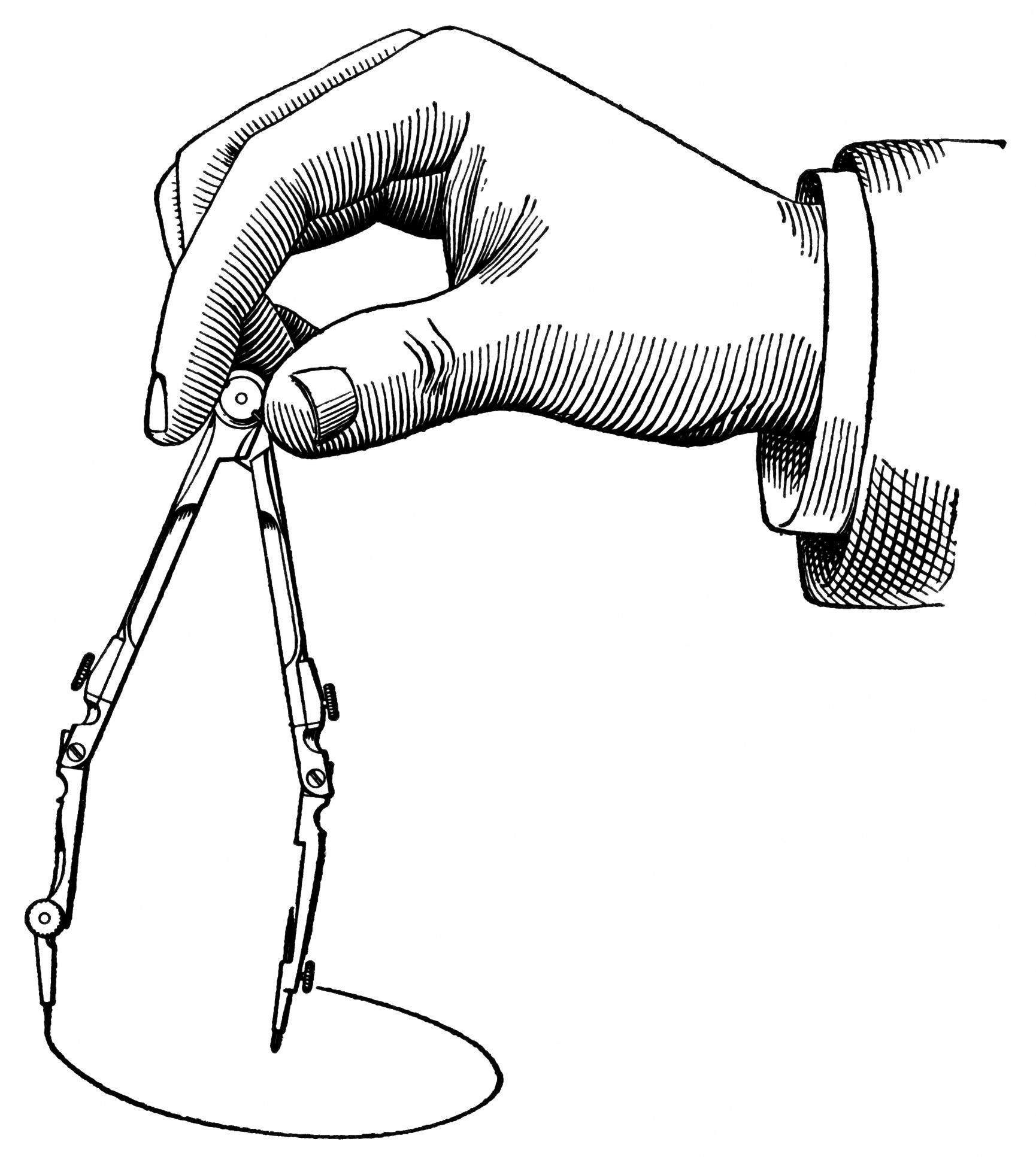 Showing how to draw a circle with a pair of compasses.